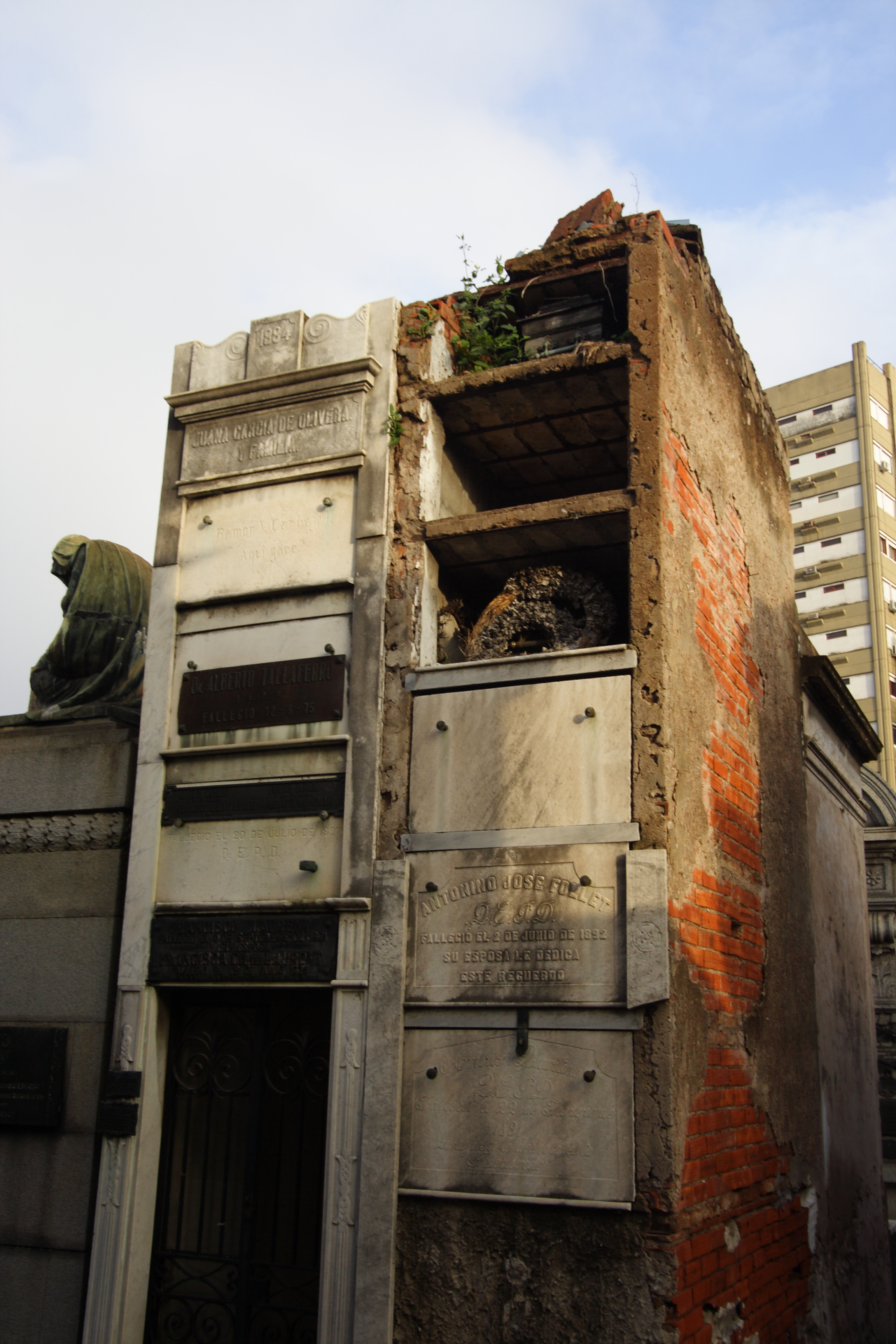 Recoleta Cemetery